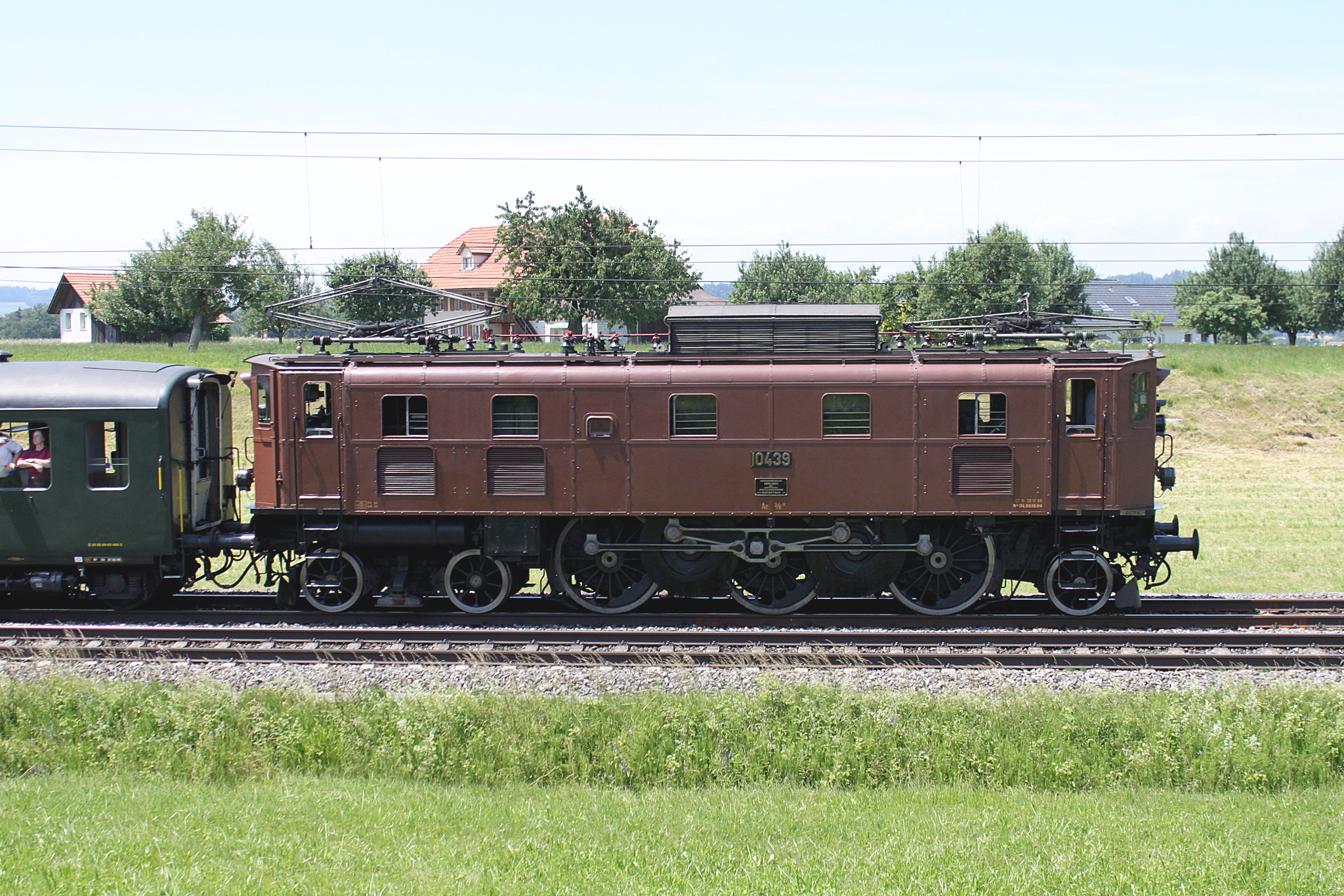 SBB Ae 3/6 II 10439 at Düdingen.